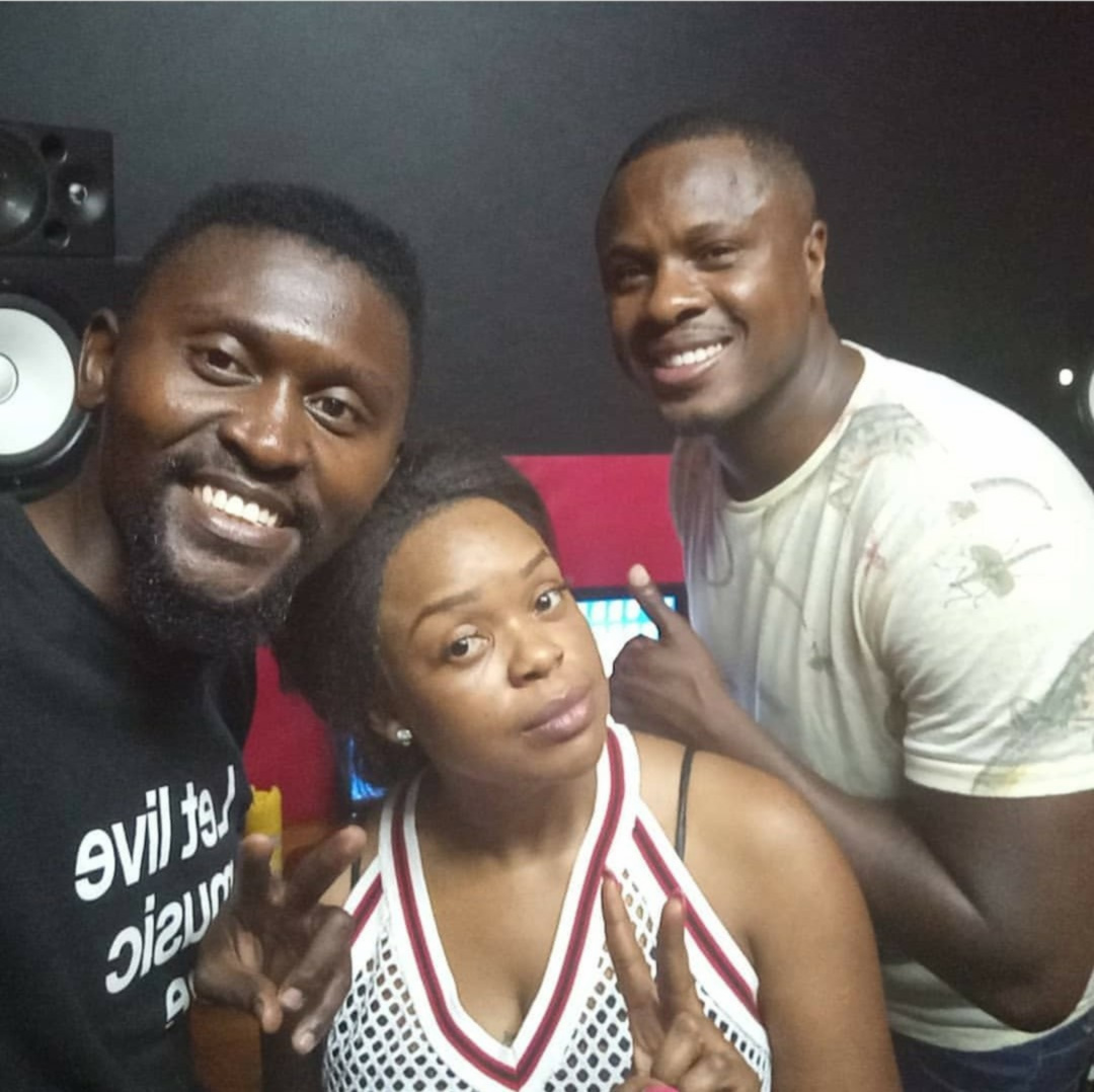 KB Killa Beat with B'Flow and Mampi in the K-Army Studio